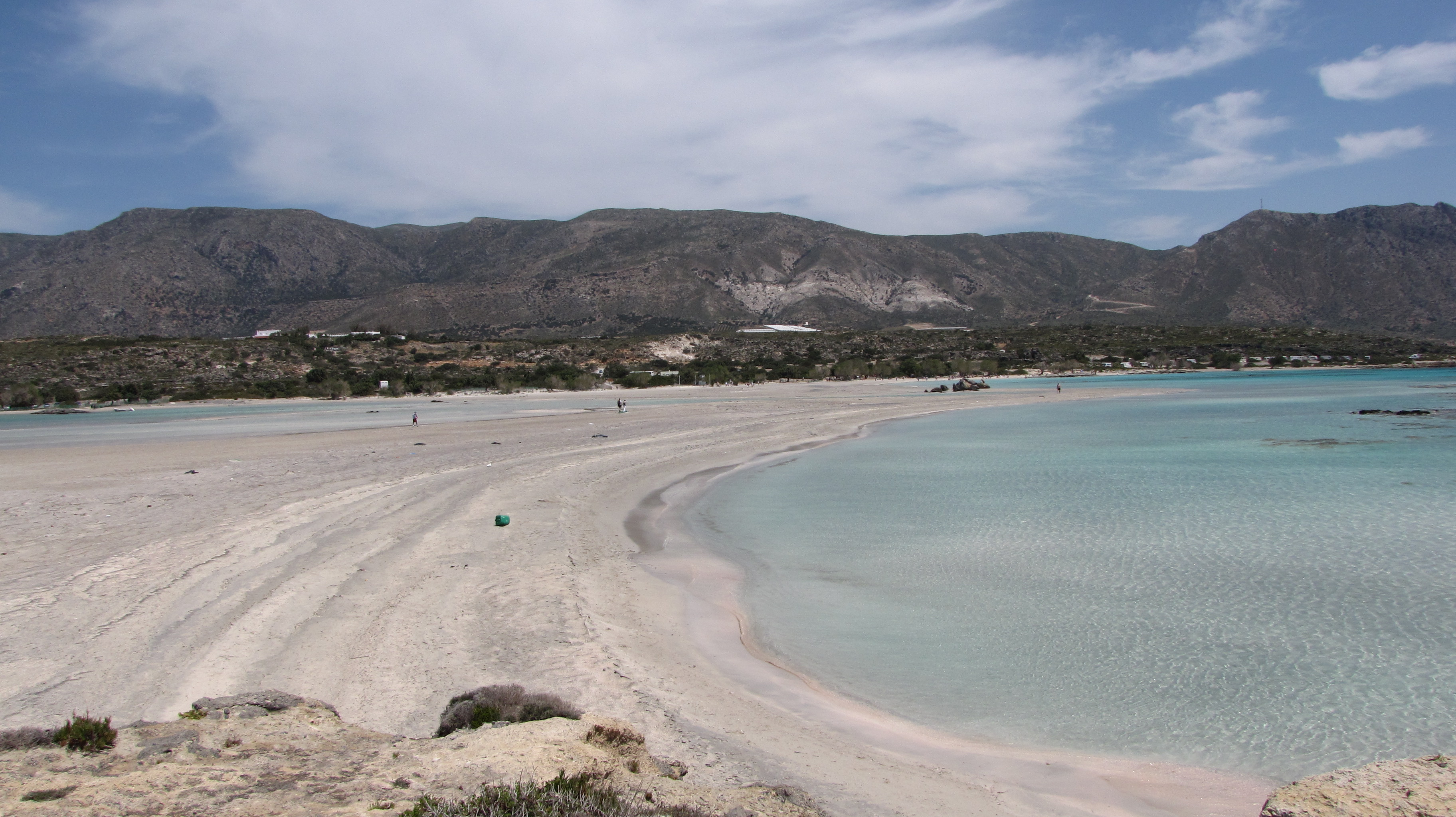 View from small Elafonísi island towards Crete. Elafonísi were in late April 2010 interrelated with Crete island.